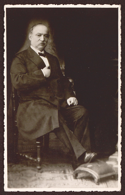 Dimitar Robev from Bitolya